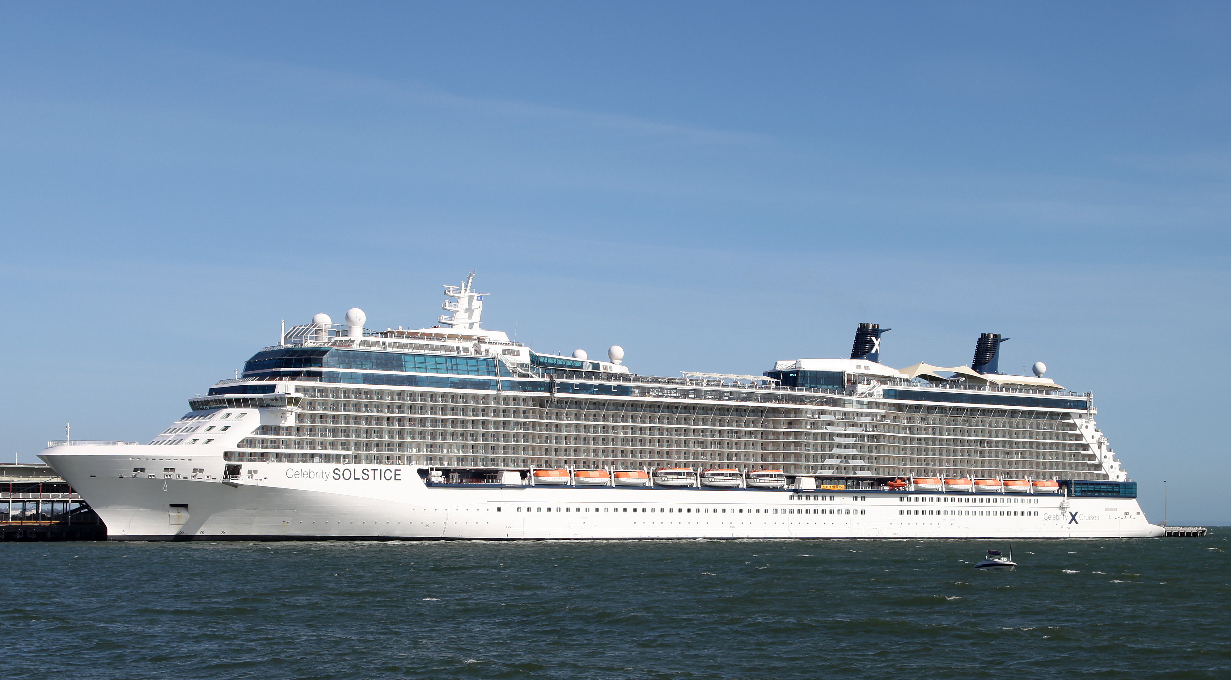 Celebrity Solstice view in Port Melbourne, Australia on 26/12/12